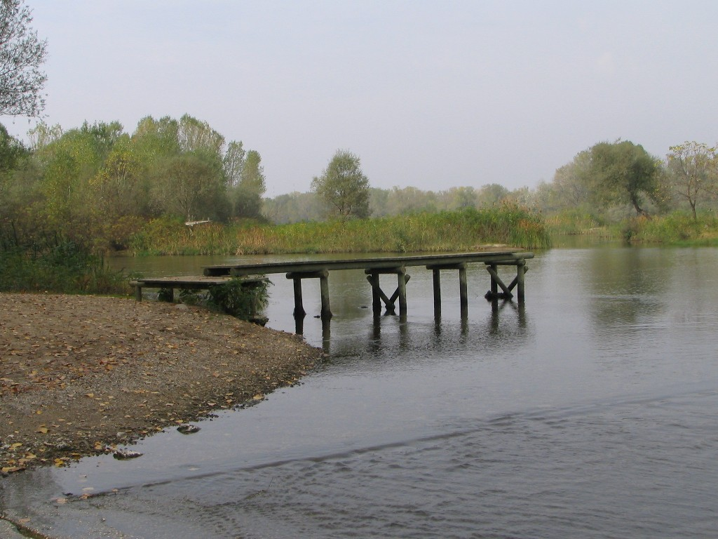 Confluence of Evros and Ardas rivers - Greece, Turkey